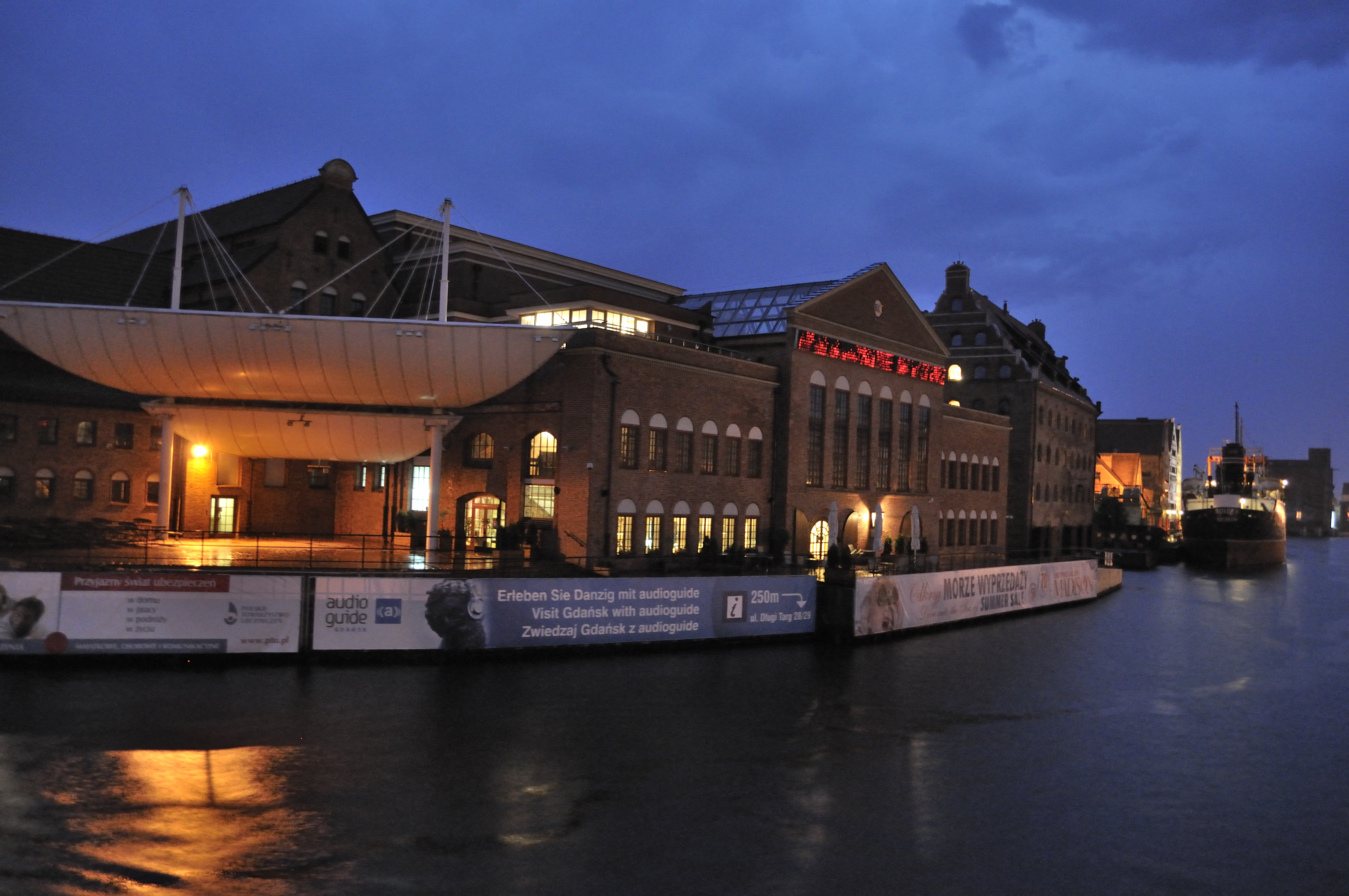 Picture taken in Gdańsk after Wikimania 2010 conference.